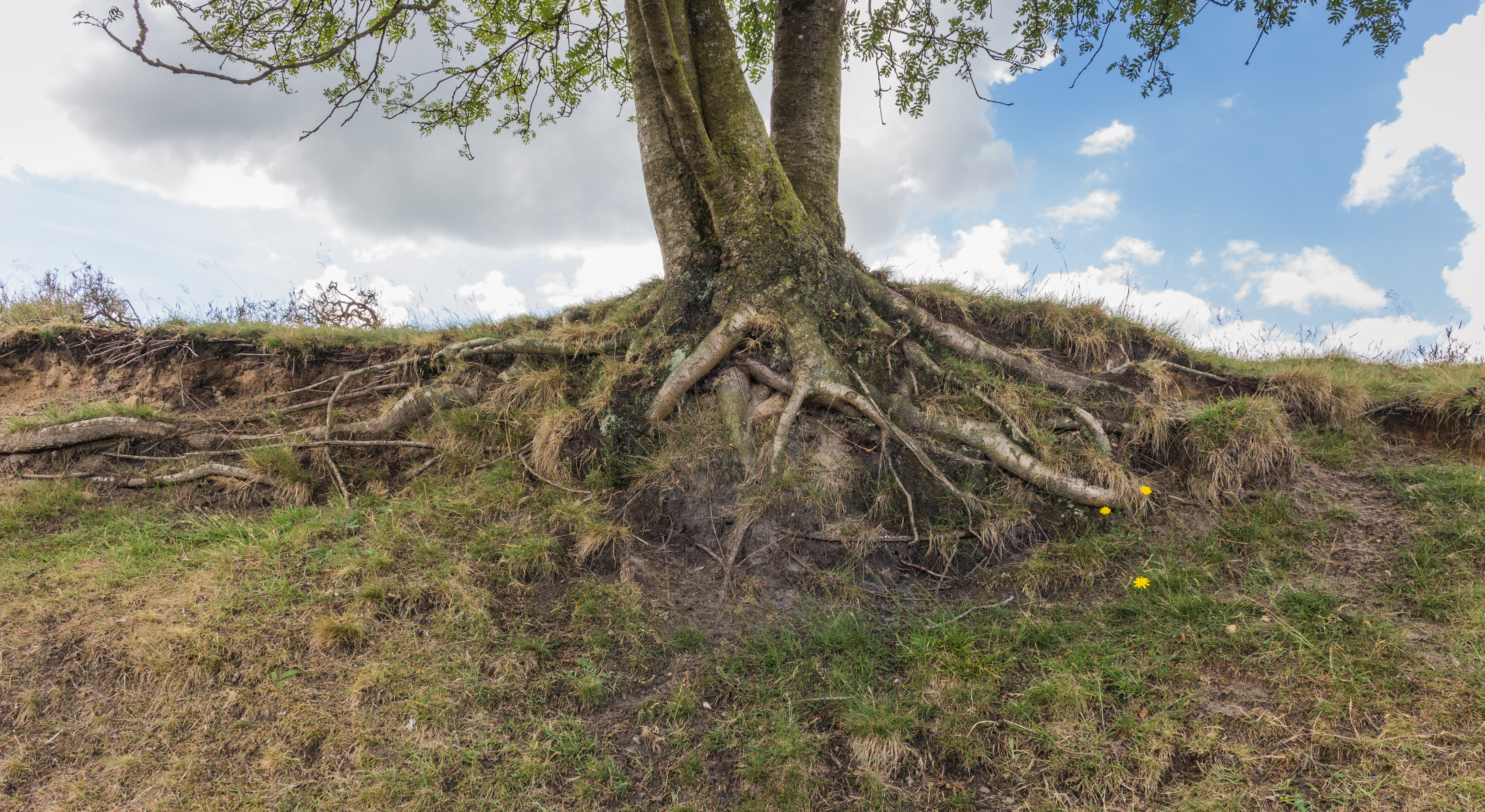 Walking tour of the Balloërveld. Rinsed roots of a Sorbus.